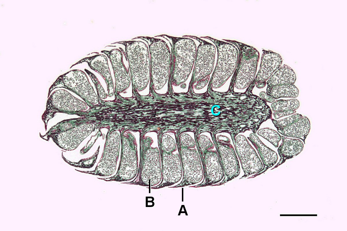 Photomicrograph of a staminate Pinus cone. A=Microsporophyll, B=Microsporangium with pollen grains, C=Cone axis. Scale=1.1mm.